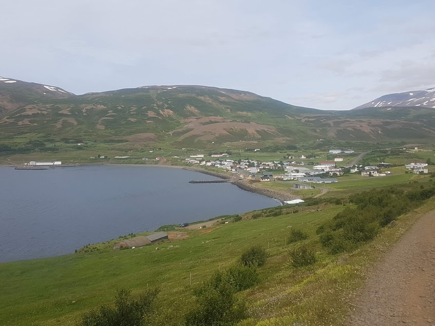 Grenivík